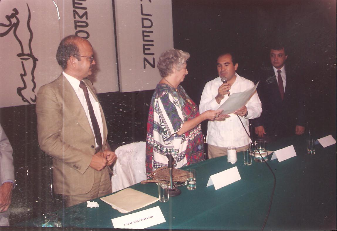 Ceremonia de entrega del Premio Nacional de Danza José Limón a la Señora Waldeen. El Lic. Juan Burgos Pinto, representante del Lic. Francisco Labastida Ochoa, Gobernador Constitucional del Estado hace la entrega.